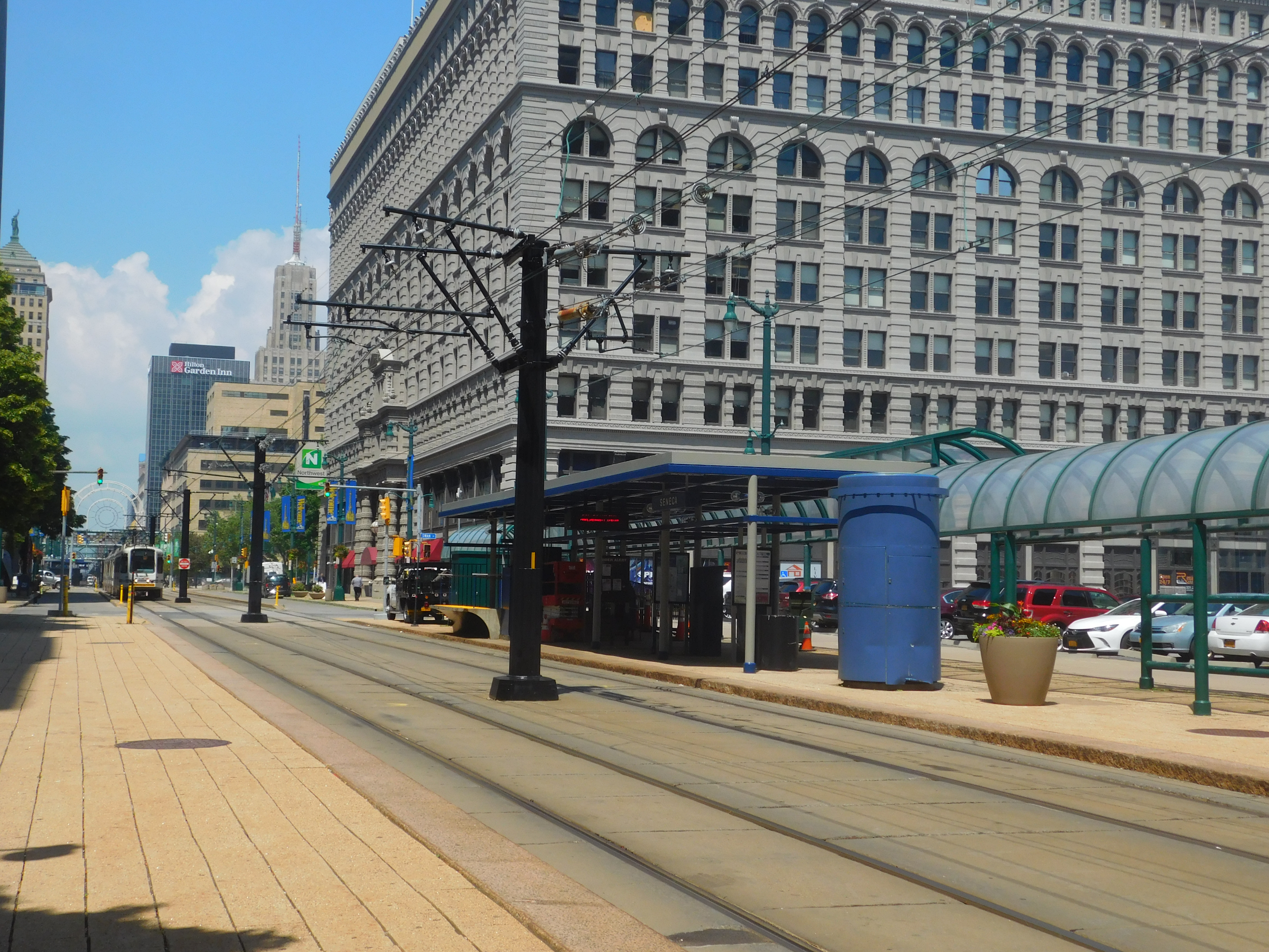 Seneca station of the Buffalo Metro Rail in July 2019.